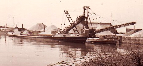 Ship Immenstaad ex Meersburg ex Stadt Constanz